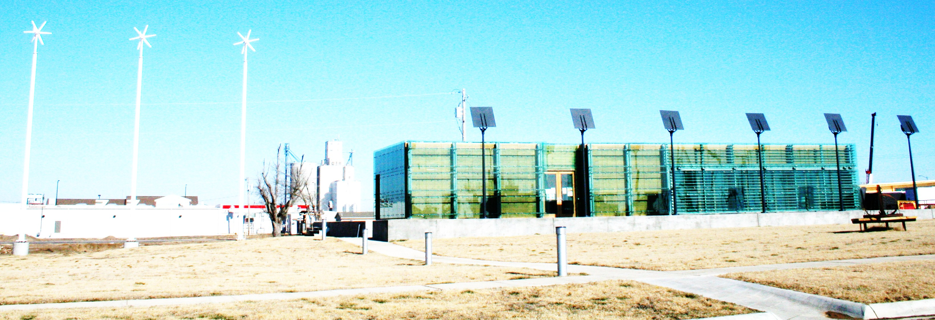 Greensburg, Kansas arts center, a LEED Platinum facility integrating solar panels and wind generators for energy self-sufficiency. Photo taken December 31, 2009.